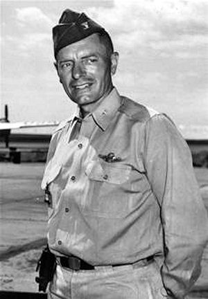 Colonel Einar Axel Malmstrom - United States Air Force photo